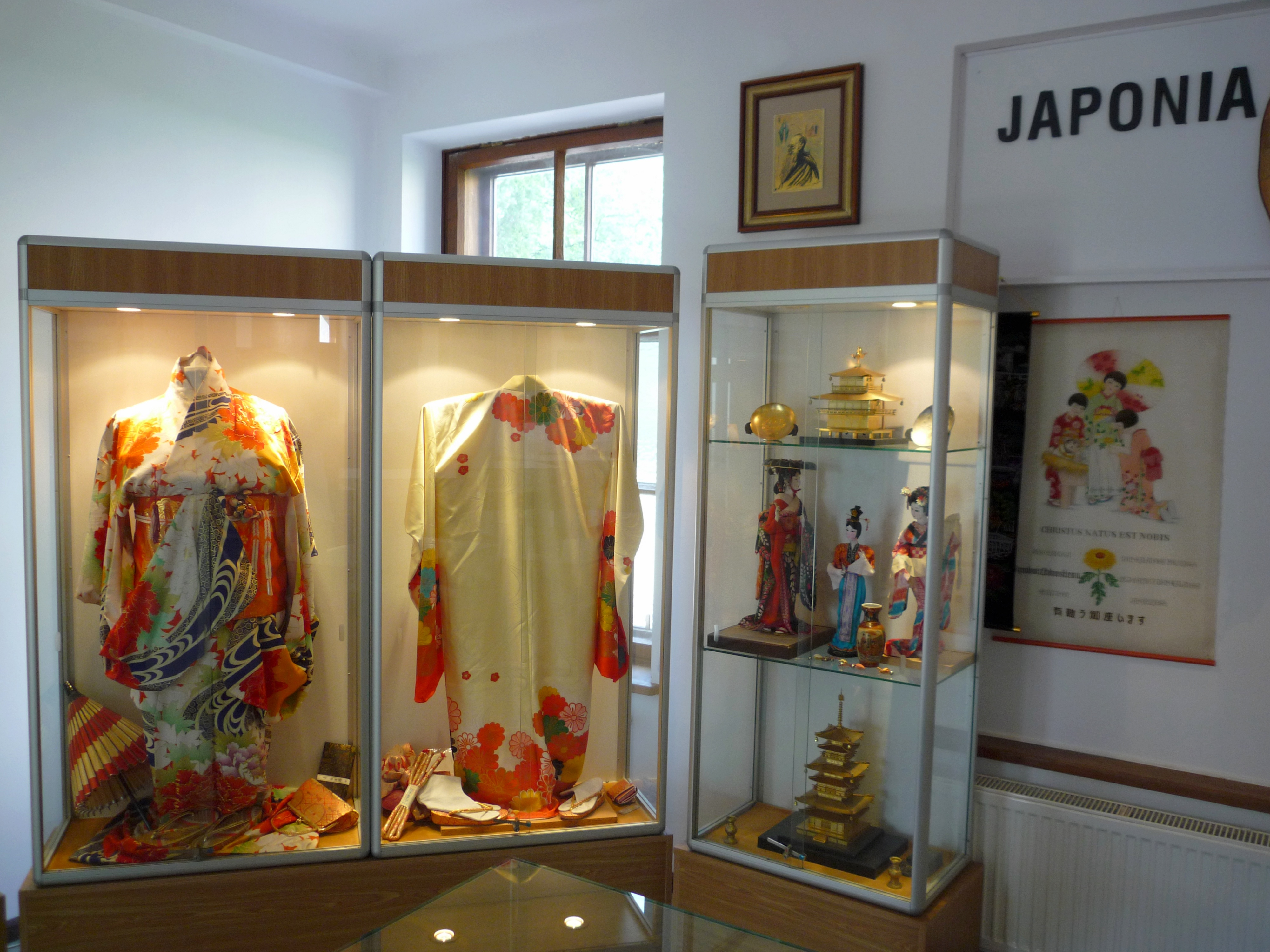 Museum of St. Maximilian Kolbe, opened in 1998. The mission part